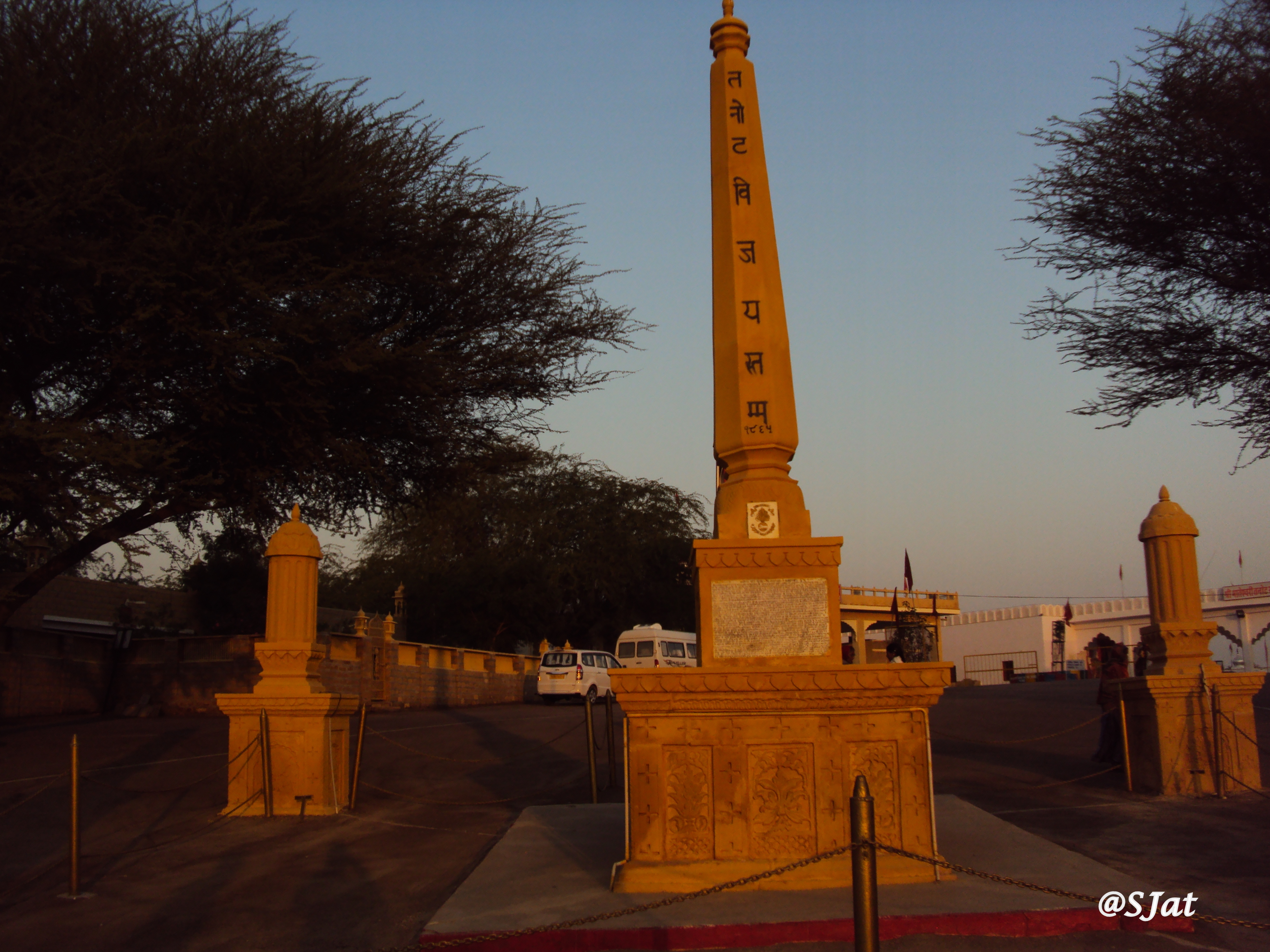 Mateshwari Tanot Rai Mandir